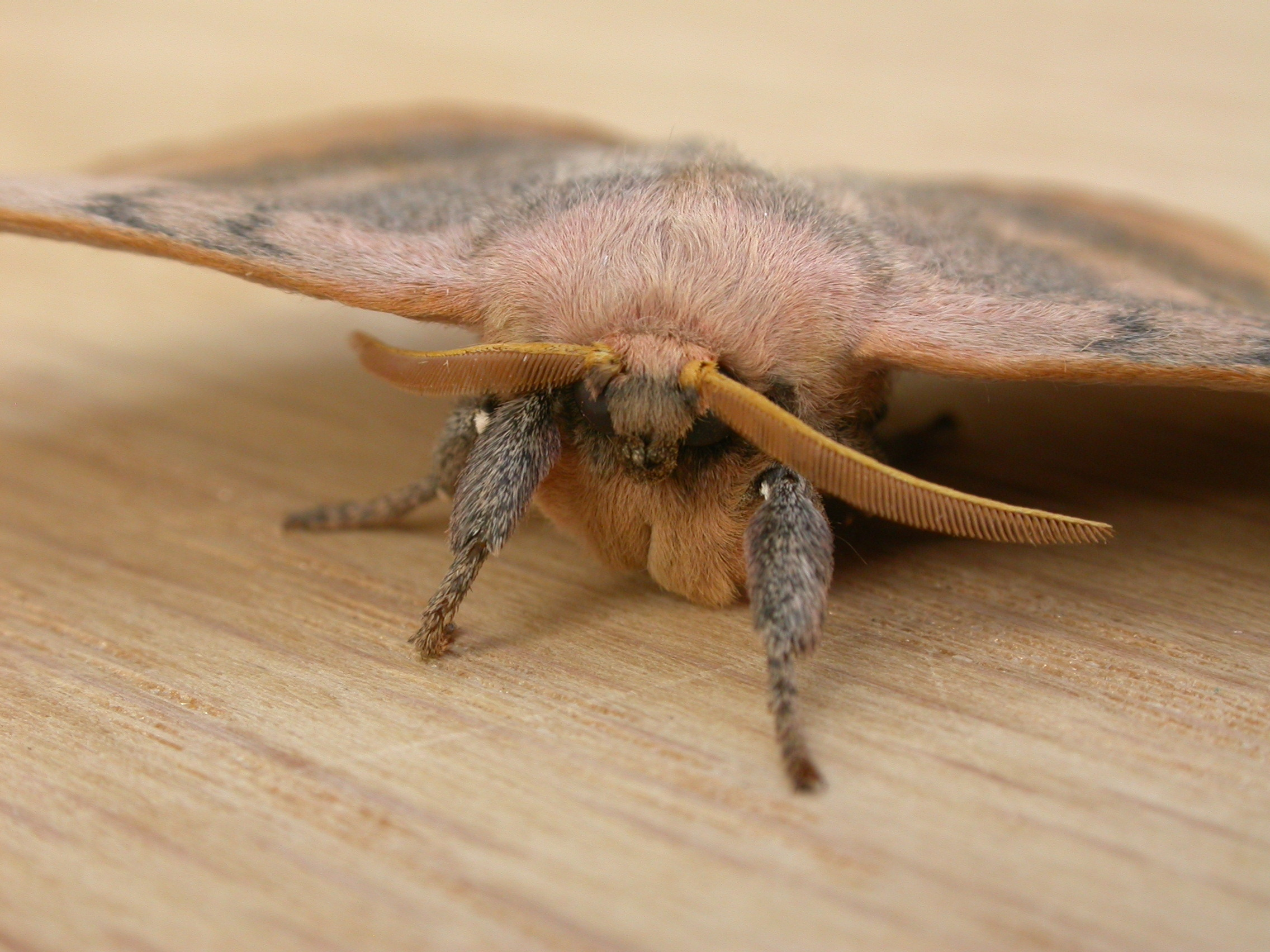 Anthela varia